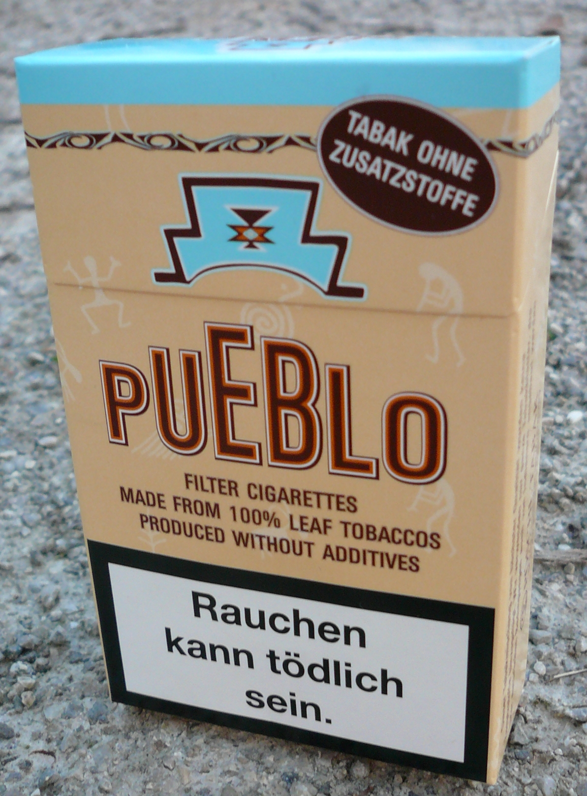 cigarette packet Pueblo